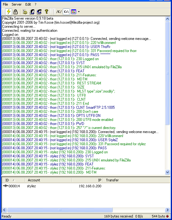 This is the FileZilla server interface.